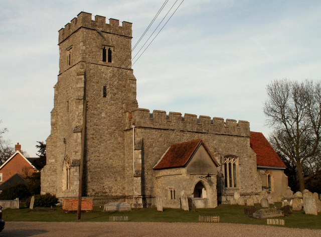 St. Nicholas' church, Tolleshunt D'Arcy, Essex. This interesting perpendicular church no doubt had money given to it in the past by the wealthy Tudor D'Arcy family who lived in the splendid hall next door. They gave their name to the village and they have their own chapel inside the church, which has some very interesting tombs.